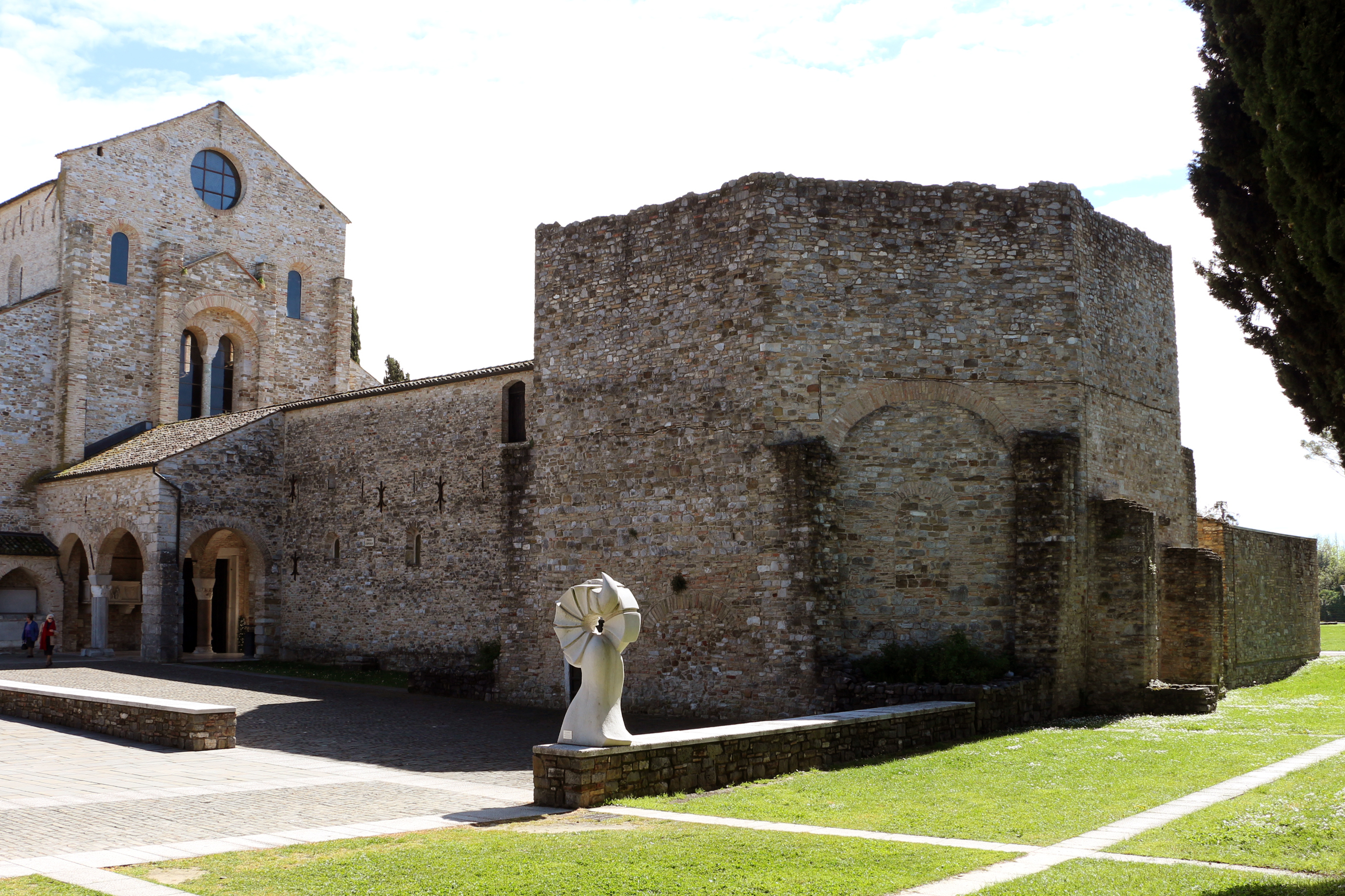 Basilica Patriarcale (Aquileia)